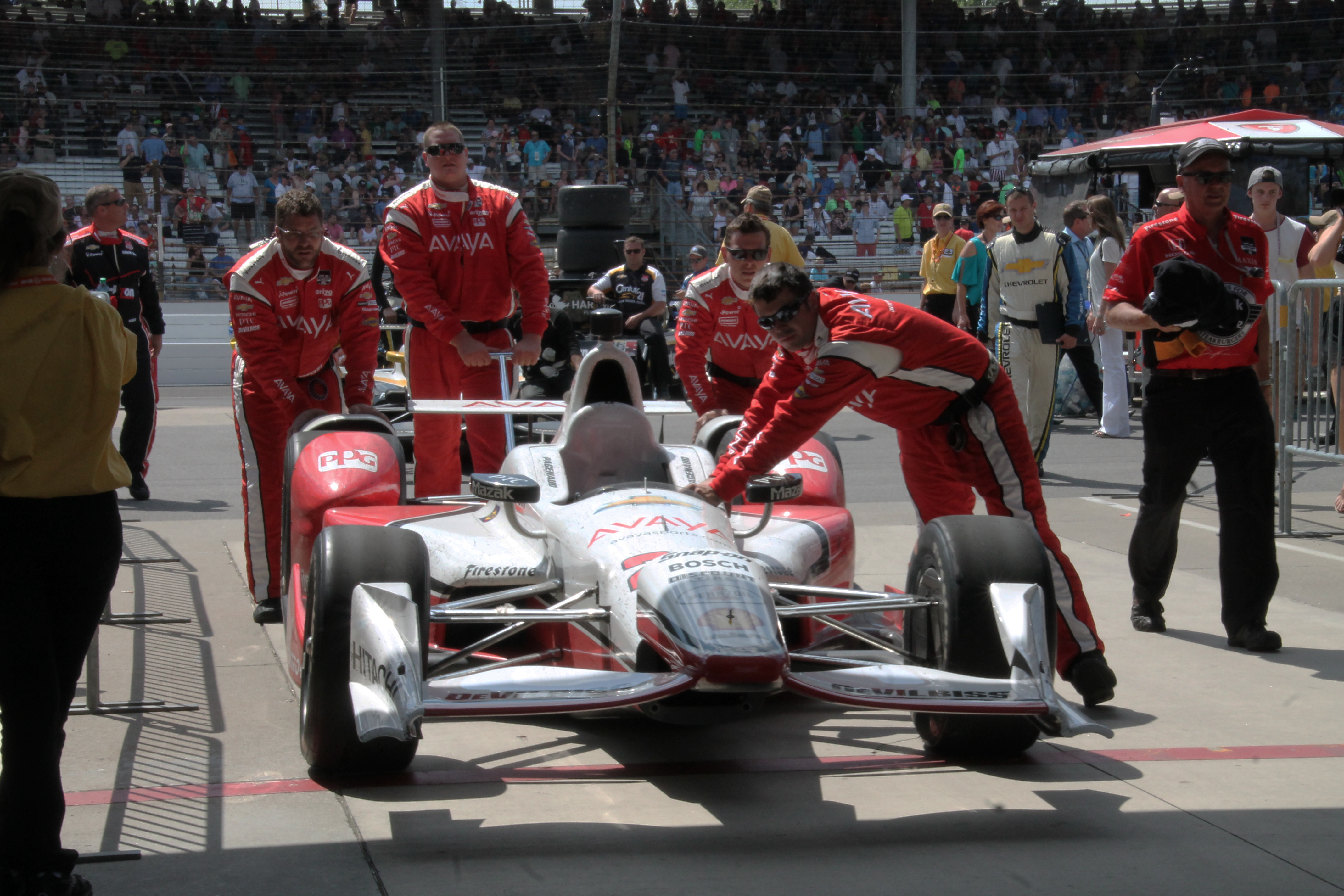 Simon Pagenaud's #22 after the 2015 Indianapolis 500